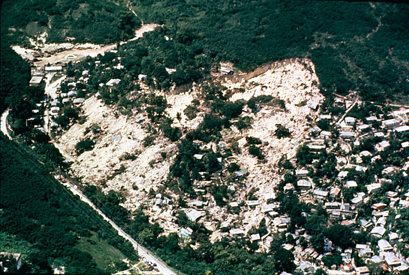 Aerial picture of the Mameyes landslide